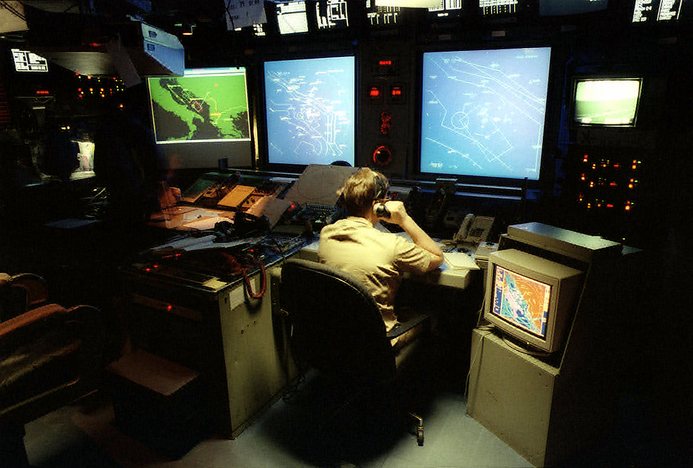 9282 CVIC The Combat Direction Center (CDC) serves as the nerve center on the aircraft carrier USS AMERICA (CV-66). The CDC accurately gathers specific information about ships and aircraft maneuvering in the vicinity of the battle group.